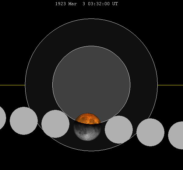 =lunar eclipse chart of moon's path through the earth's shadow. thumb